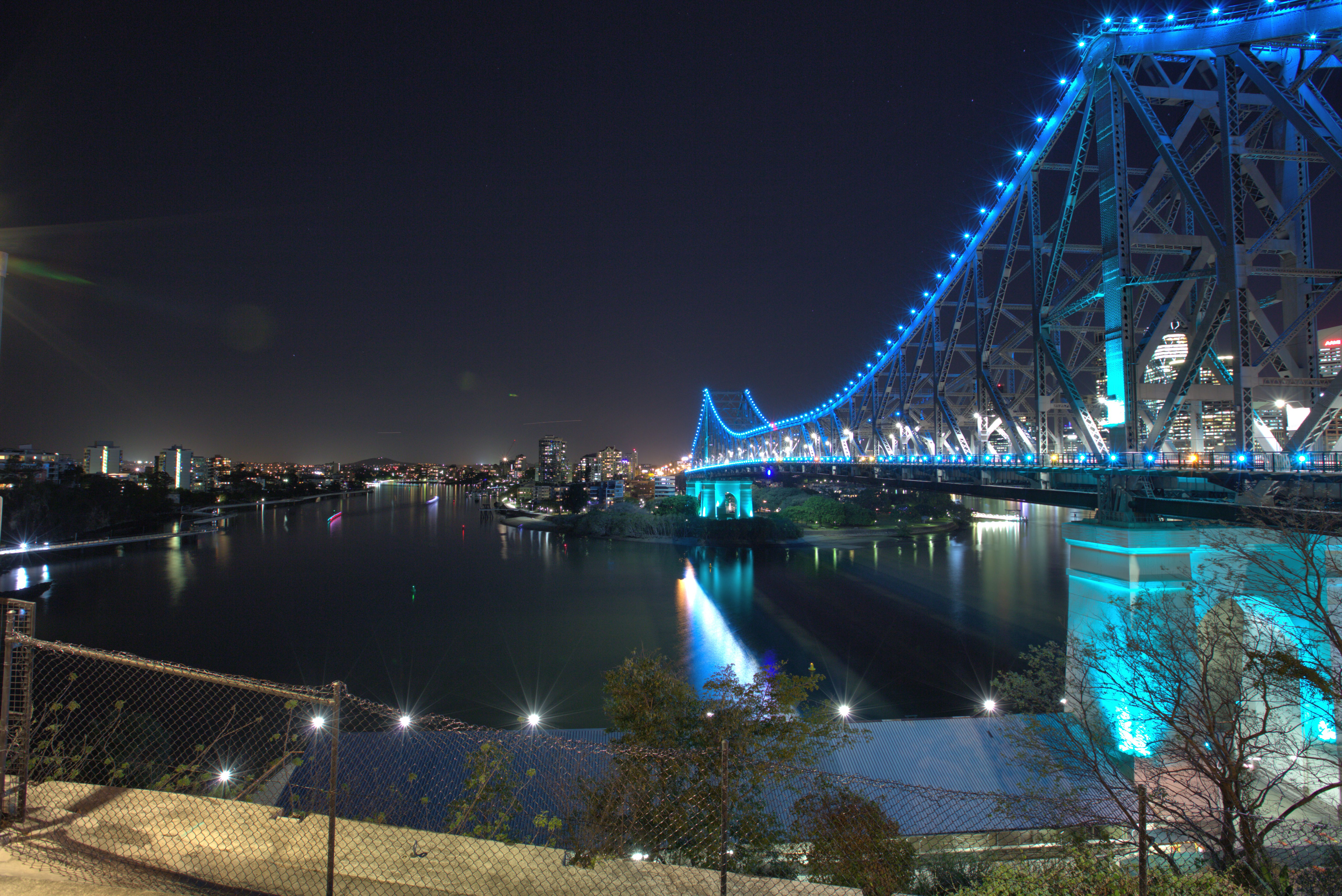 After getting home from the Northern Territory, a quick Friday evening trip to Brisbane and the Story Bridge was in order. Colour on this occasion was Teal, supporting Ovarian Cancer's "Light Up australia Teal" campaign. Of course I do enjoy a light trail or two.